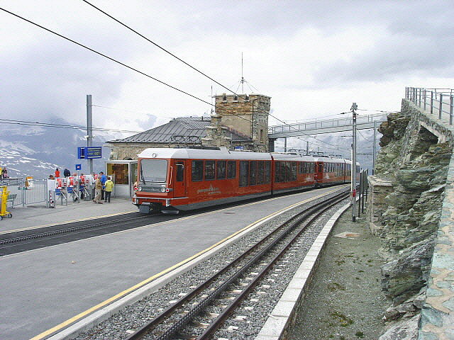 Gornergratbahn GGB / Gornergrat